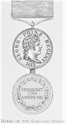 Medal of the Royal Guelphic Order, Hannover and United Kingdom. Spink & Son print, published 1891.